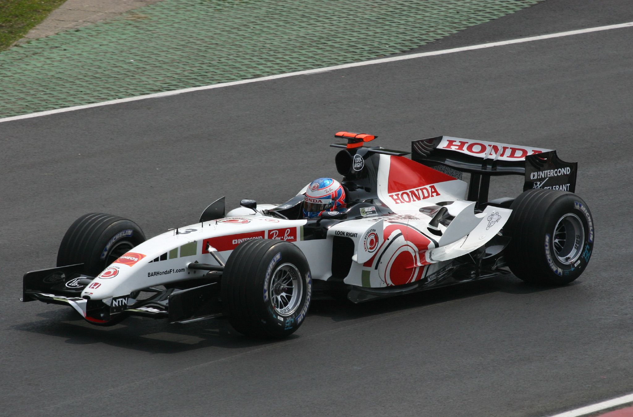 Jenson Button driving for British American Racing at the 2005 Canadian Grand Prix.